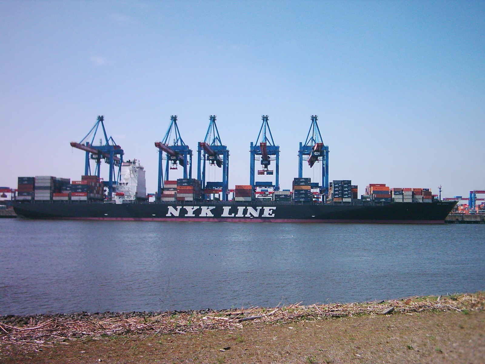 NYK Line container ship at Container Terminal Altenwerder, Hamburg, Germany.